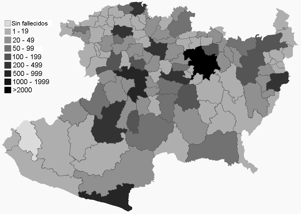 Deaths by coronavirus